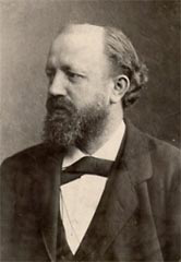 Karl Schroeder (1838–1887), German gynaecologist